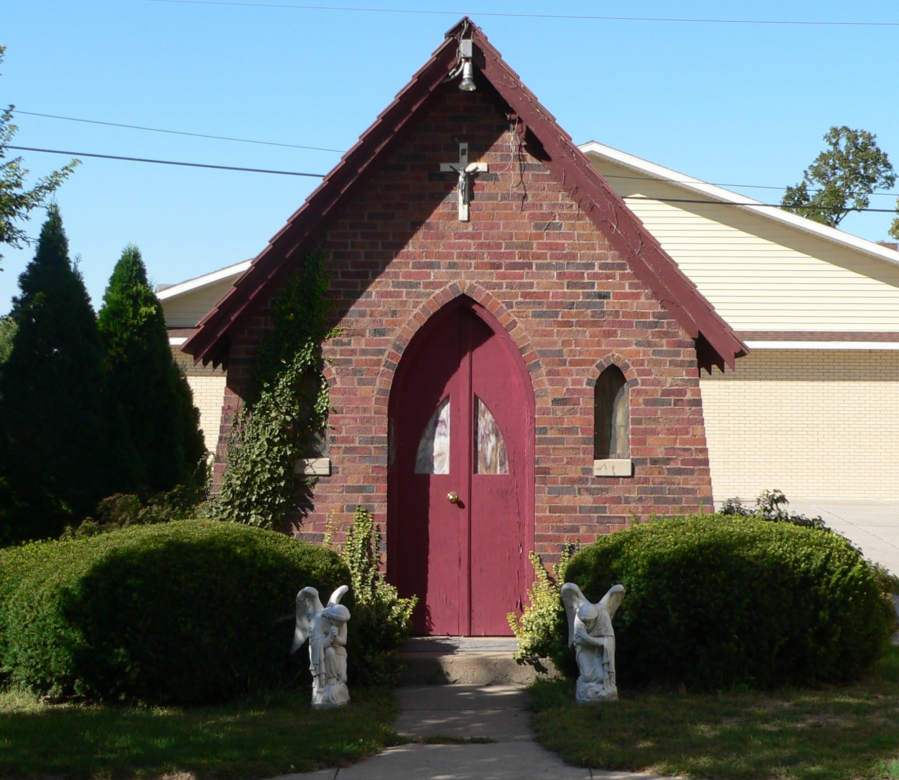 Small chapel just west of St. Mary of the Assumption Church in Dwight, Nebraska; seen from the south.